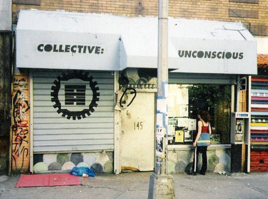 Collective:Unconscious Theater at 145 Ludlow Street, circa 1997.